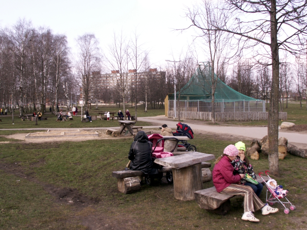 Beržynėlis park in Šiauliai, Lithuania